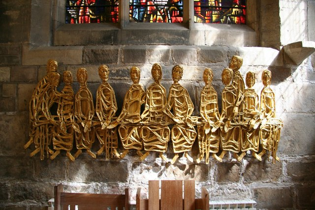 Reredos of the Last Supper in St Martin-le-Grand parish church, York, England.Gold painted aluminium figures made by the sculptor Frank Roper in 1967.